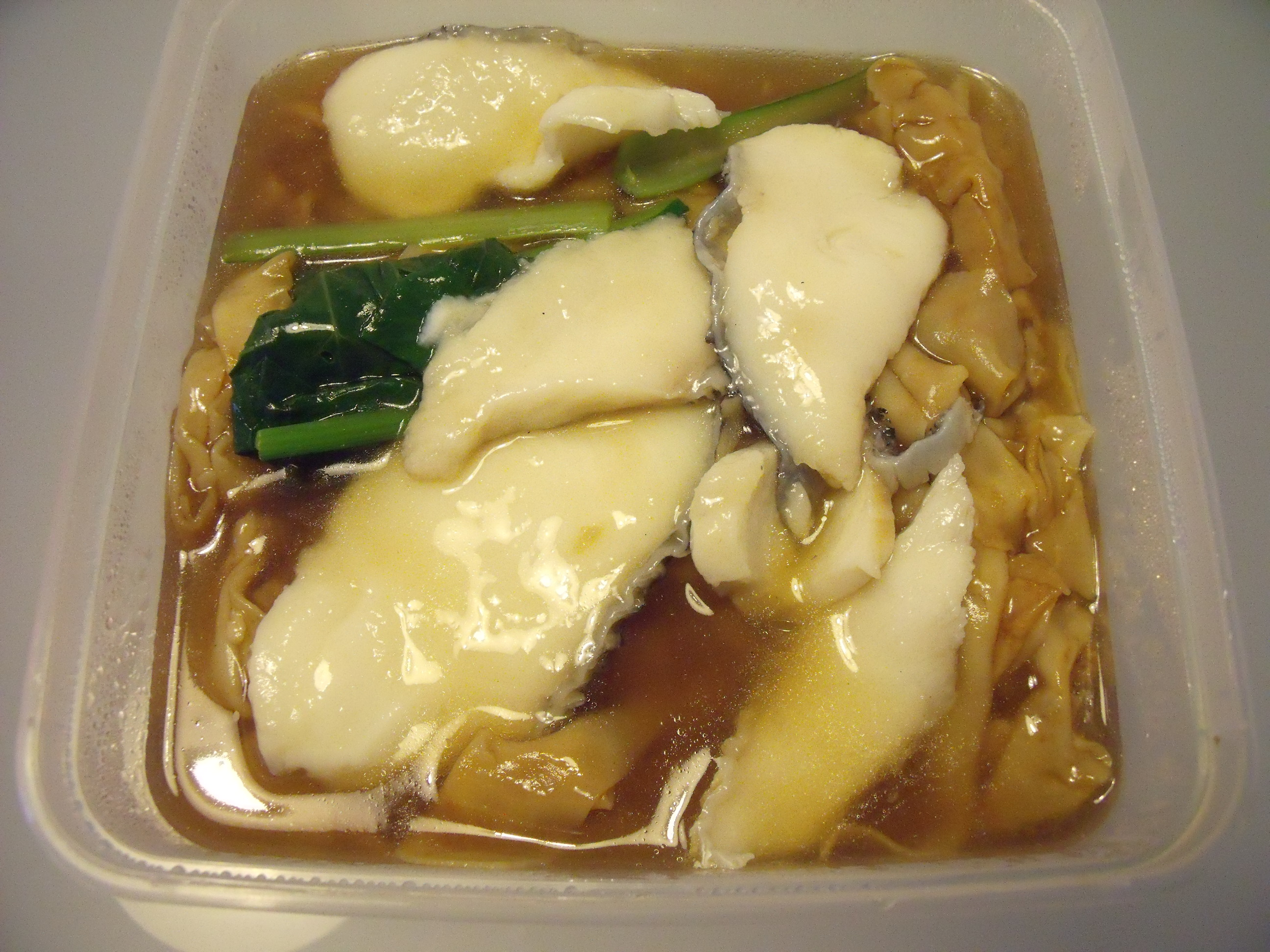 Our Sunday night dinner; sliced fish hor fun.